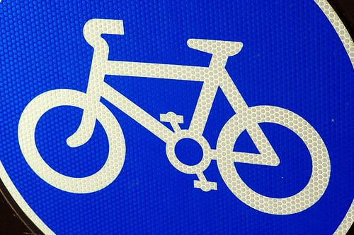 A sign denoting a path only to be used by cyclists